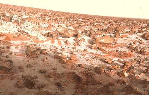 Image of frost at the Viking 2 landing site. This image has been mildly enhanced to bring out frost details. Thus, it should not be considered quite "true color".